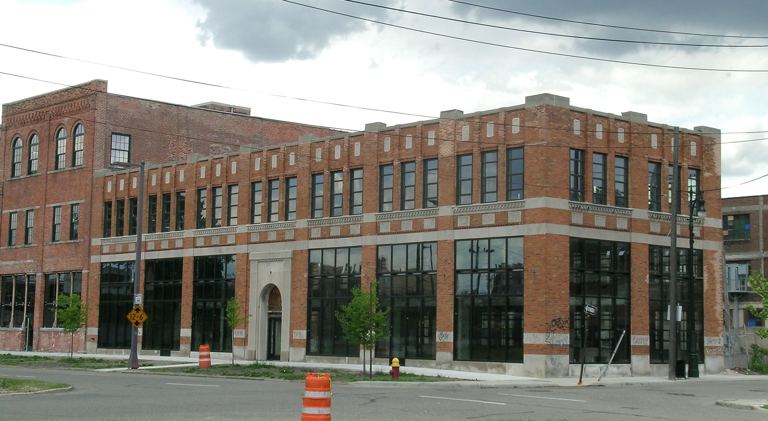 The Caille Brothers Building (also known as the Century Floral Building) at 6200 Second Avenue in Detroit, Michigan, United States, lies within the New Amsterdam Historic District.